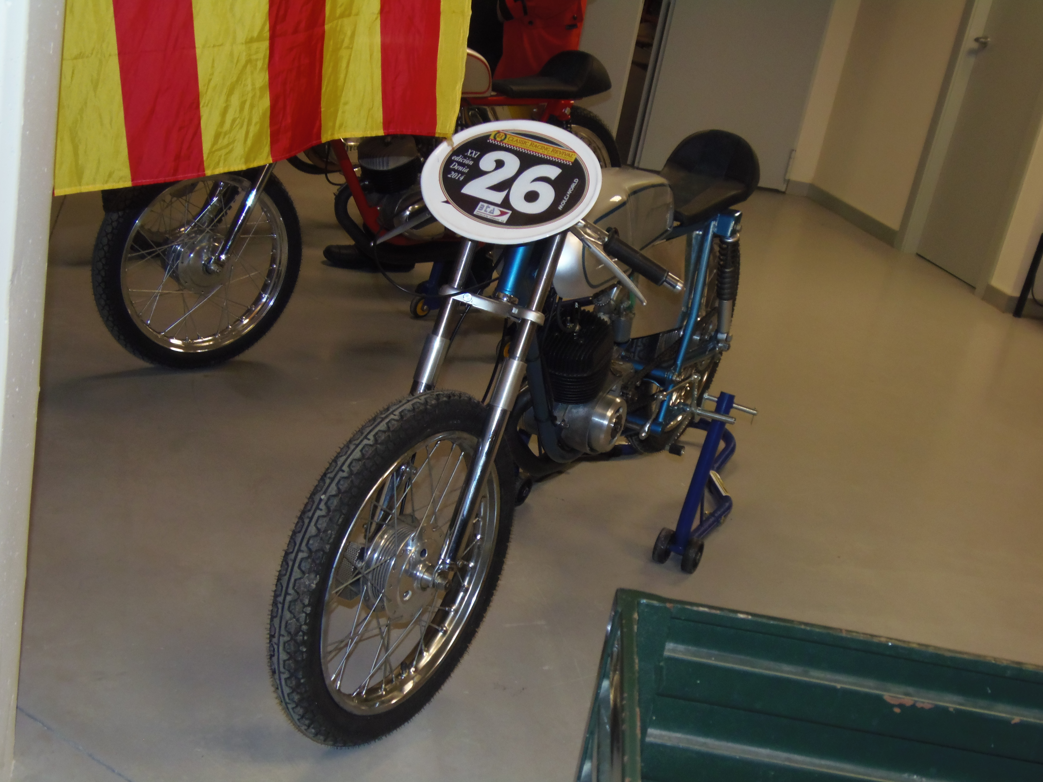 Mymsa SSW-62 Sport, 98cc, 1962